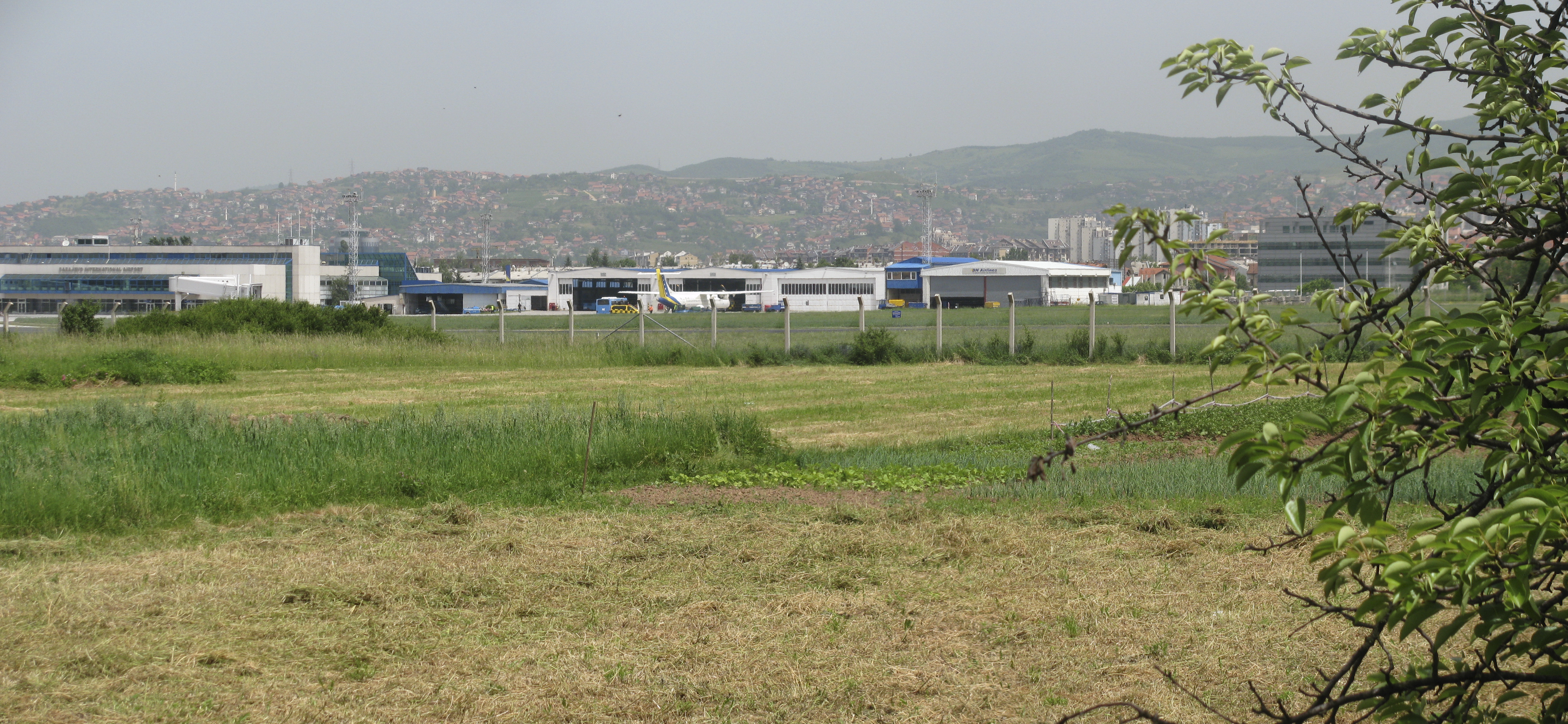 Sarajevo International Airport panorama